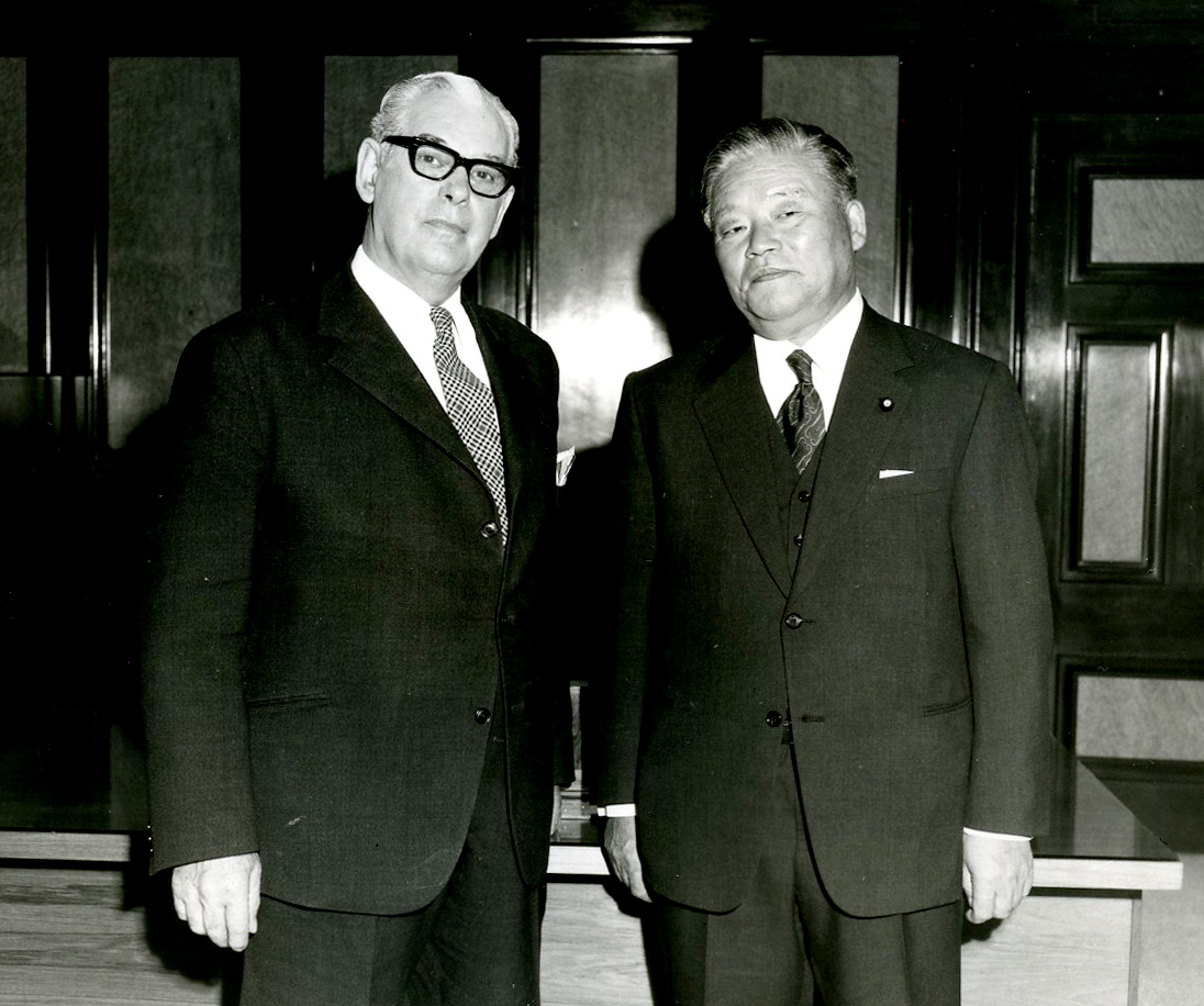 Masayoshi Ōhira, Minister for Foreign Affairs, met Keith Holyoake, Prime Minister, in New Zealand on October, 1972.